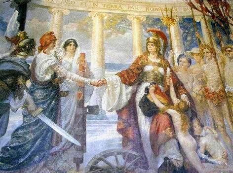 Britannia Pacificatrix by Sigismund Goetze at the Foreign Office, UK. The mural painting showes Britannia victorious after the Great War, upholding the peace with the aid of Her far-off sons and allies within a marble colonnade topped with a Latin inscription. She shakes hands with America, wearing the cap of liberty and holding the scales of justice. Note: "The figures in the painting are obviously divided in two parts, on the right is the British Empire, on the left are the other nations of the world, led by America shaking hands with Britannia. Behind Britannia are her four sons, four "Great Dominions" of Australia, Canada, New Zealand and South Africa, all portrayed as picture-perfect examples of the pure Nordic race. In the very right corner of the picture are figures representing British India, an Arab (Prince Faisal) representing the newly acquired Middle Eastern Empire, and finally a little Swahili boy carrying a basket of fruit, representing, to quote directly from Goetze, "our obligations and possibilities in the dark continent." (Goetze Murals in the United Kingdom's Foreign Office)